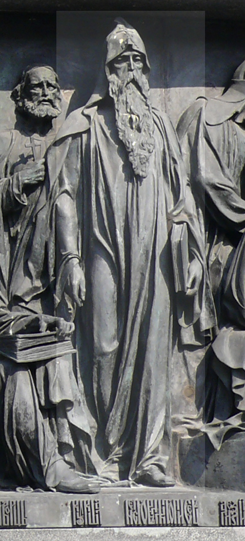 Nestor the Chronicler on the Monument "Millennuim of Russia" in Veliky Novgorod